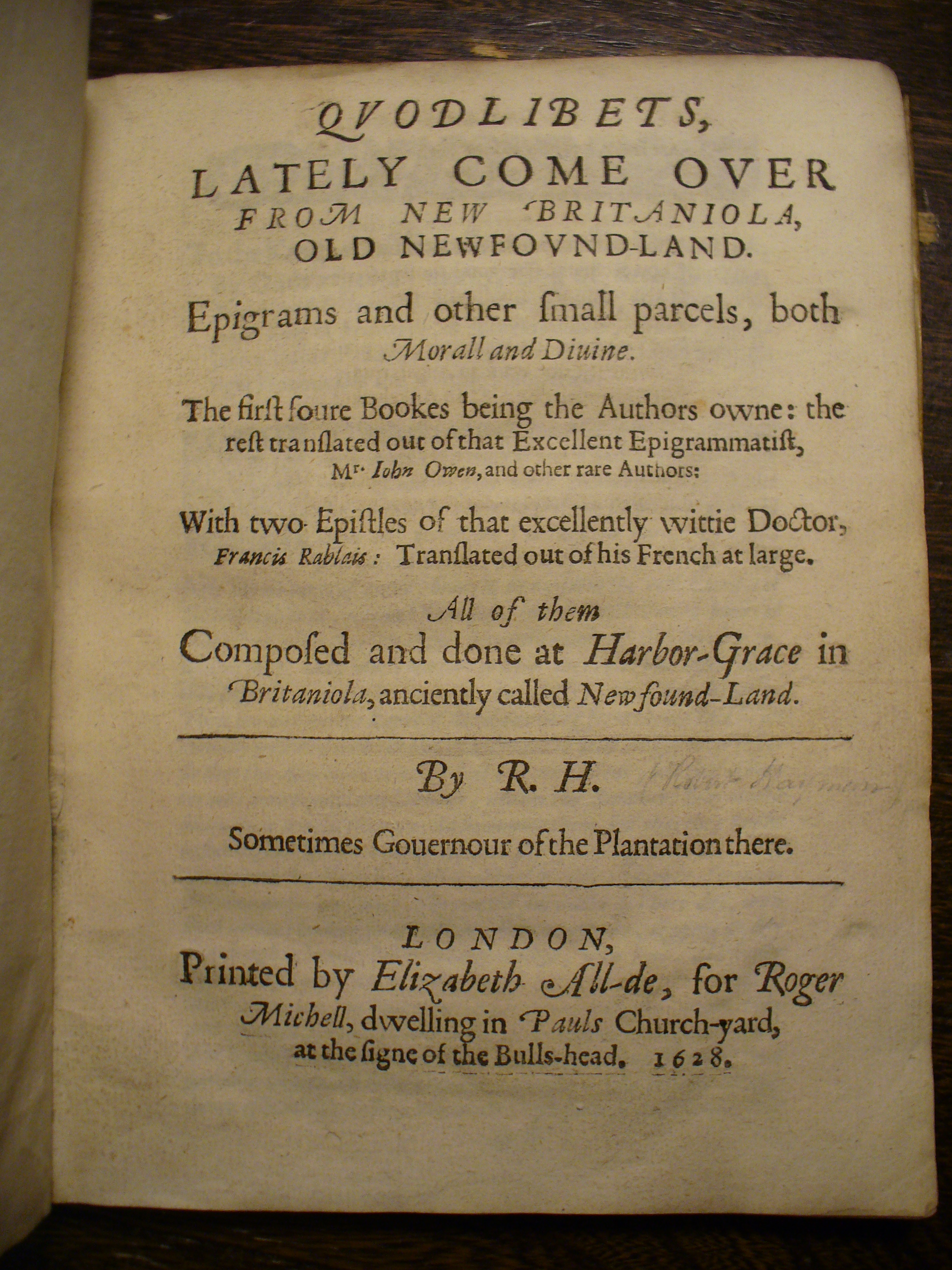 This is a photograph of the title page of Quodlibets by Robert Hayman.